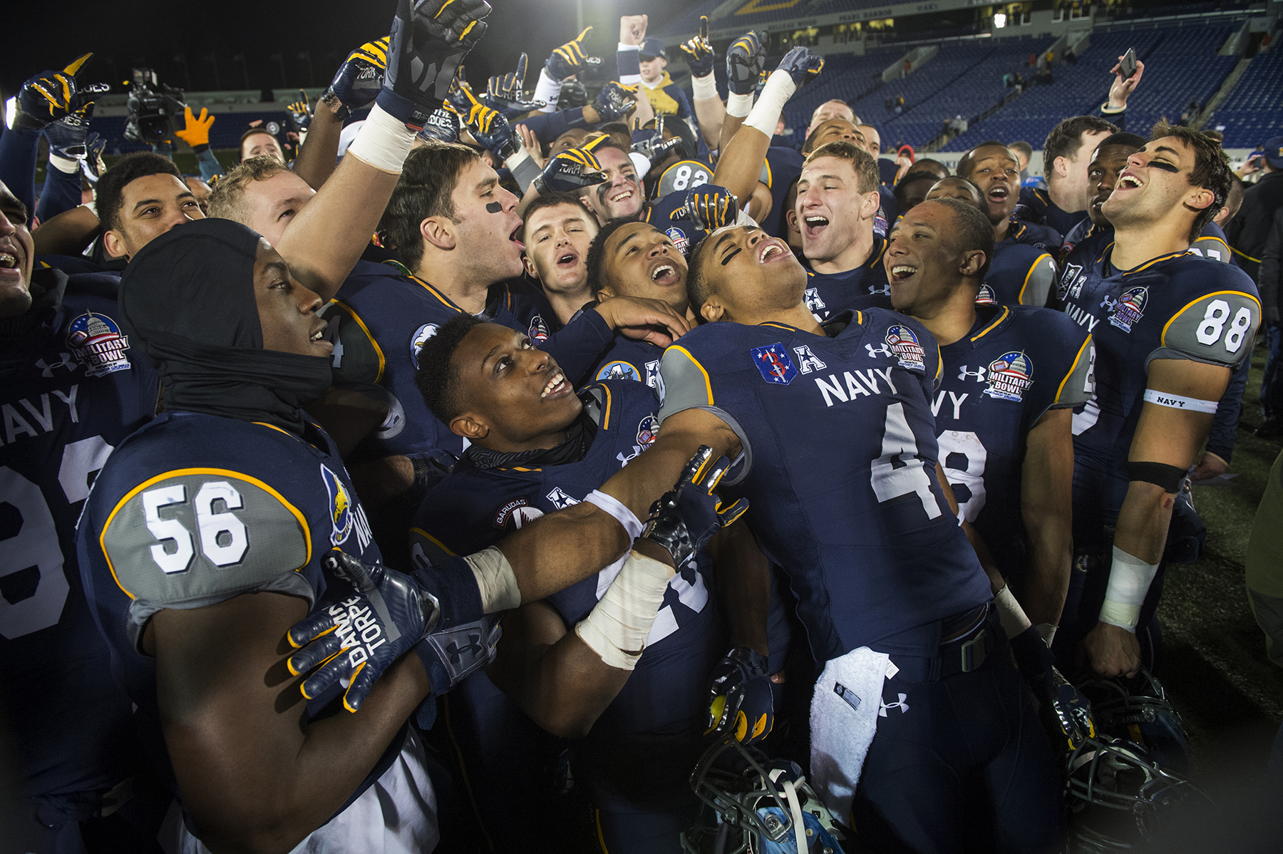 ANNAPOLIS, Md. (Dec. 28, 2015) Navy celebrates their 44-28 victory over Pittsburgh in the 2015 Military Bowl at Navy-Marine Corps Stadium in Annapolis, Md., Dec. 28, 2015. (DoD News photo by EJ Hersom/Released) 151228-D-DB155-100 Join the conversation: navylive.dodlive.mil